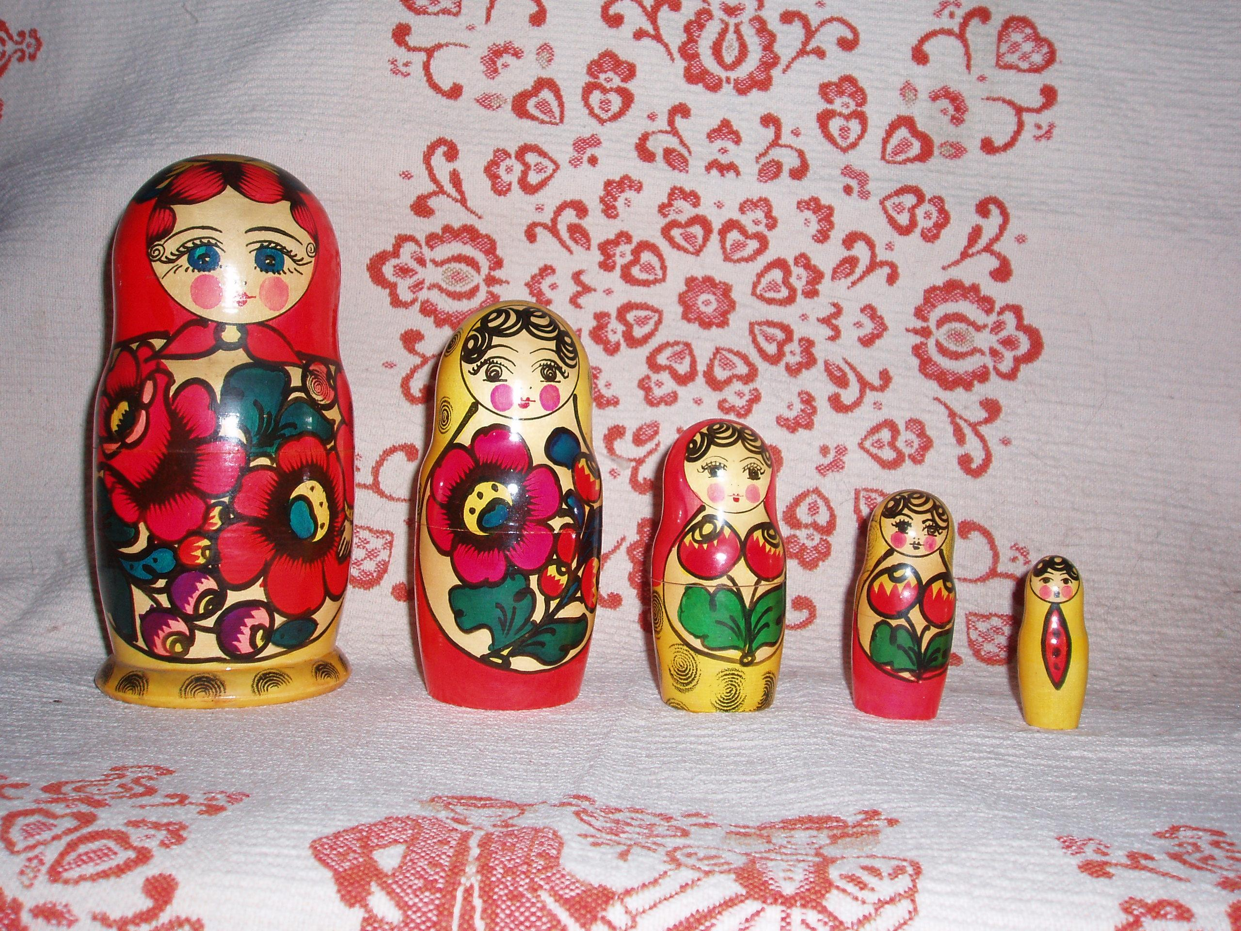 Russian toys Taken by my self on March 2 2005